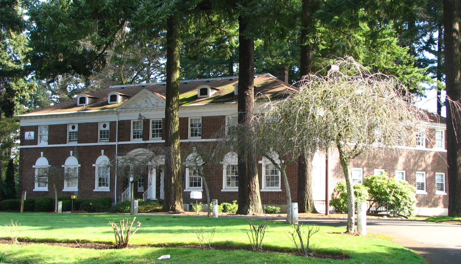 The Louise Home, Hospital and Residence Hall at 722 Northeast 162nd Avenue in Gresham, Oregon, United States, is listed on the US National Register of Historic Places. The campus continues in its historic use as a facility for delivery of social services to children and families.